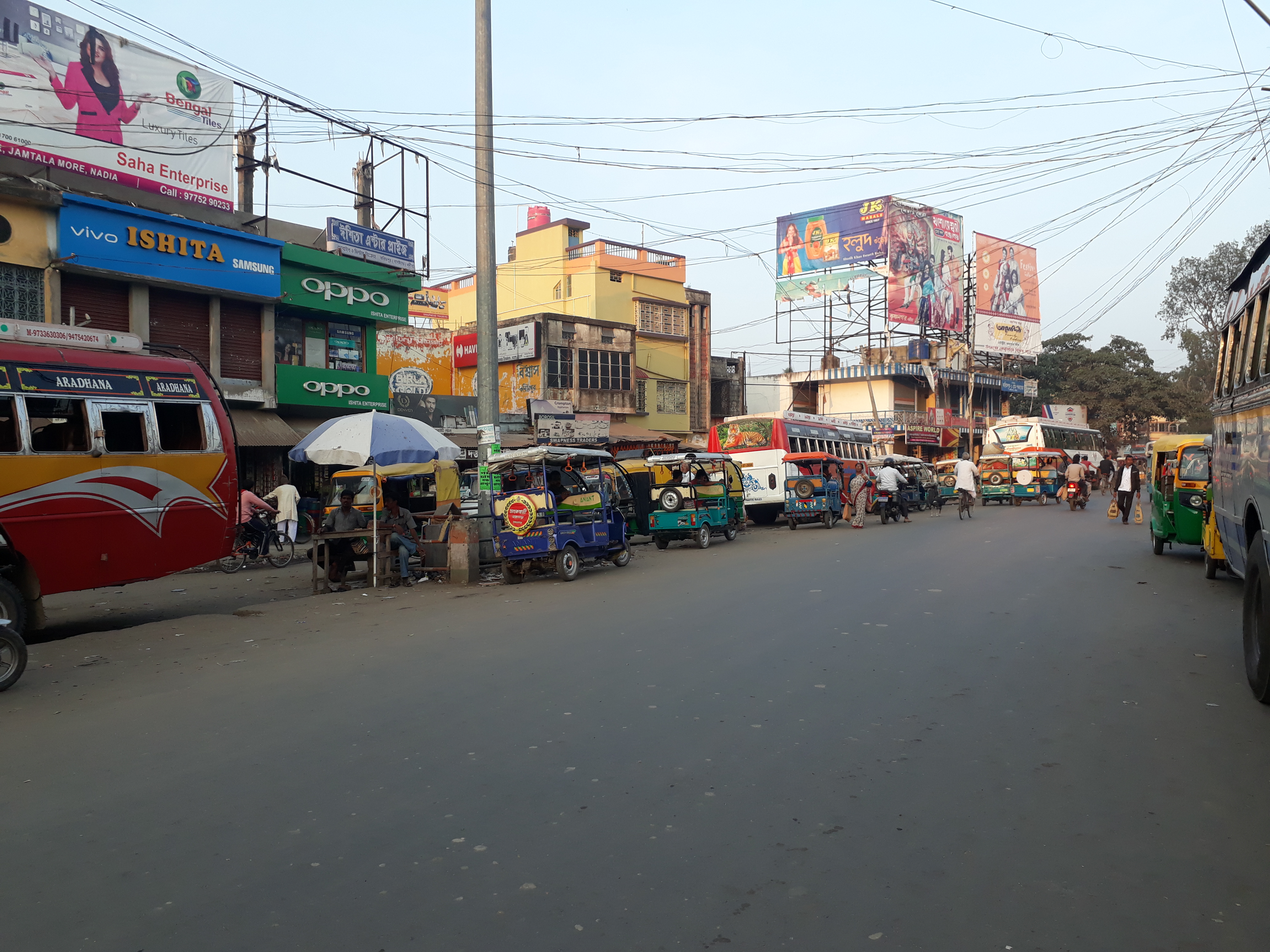 Karimpur Bus stand in Krishnagar to Karimpur State High way, Nadia.